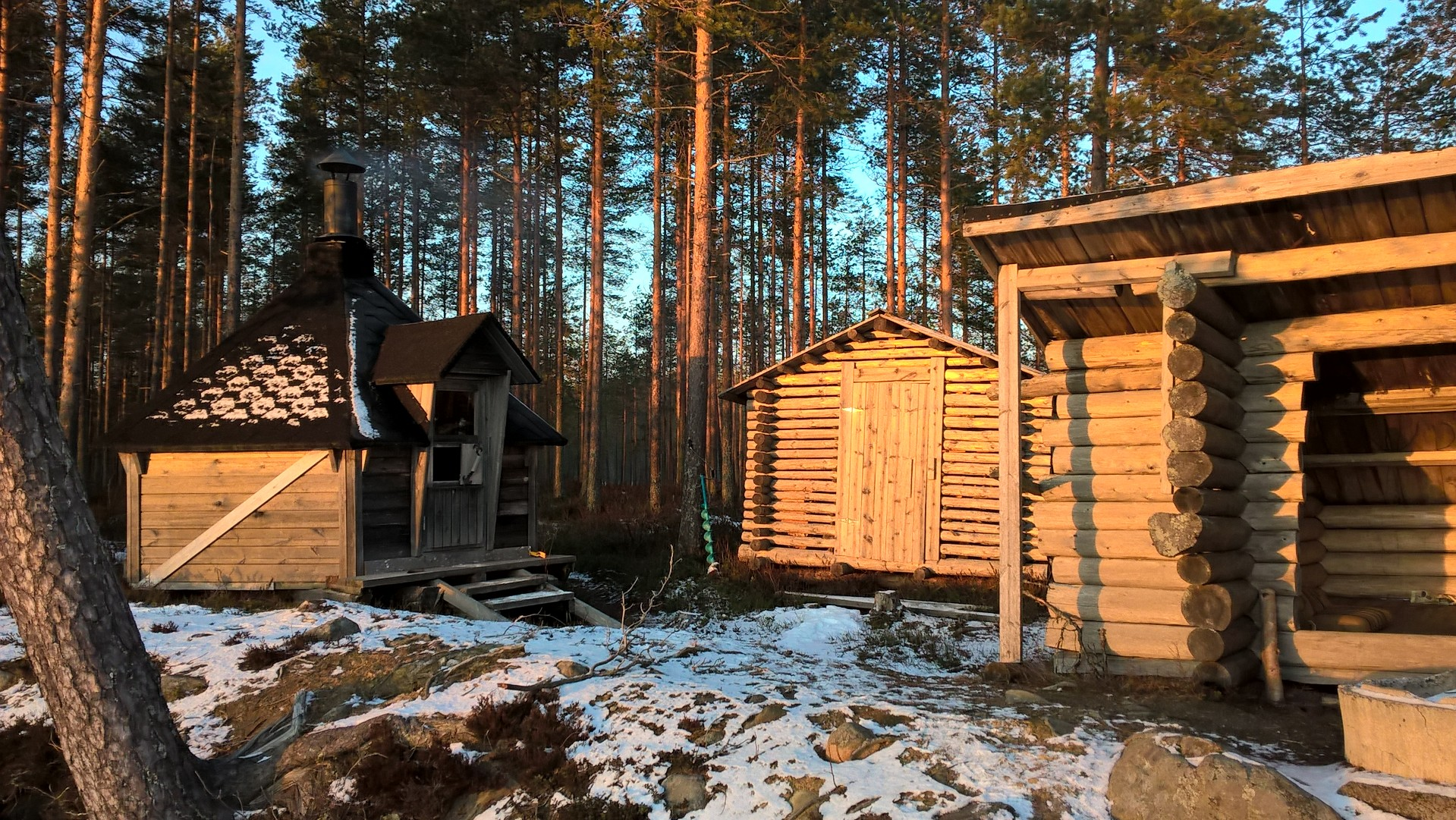 The wooden huts at the Northern shore of the Vähä-Vuotunki lake in Ylivuotto, Oulu, Finland.